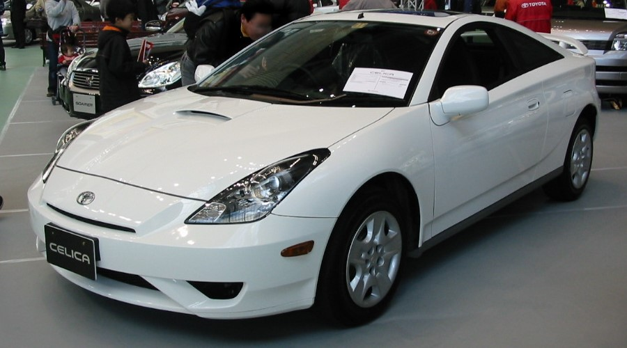 7th Toyota_Celica(2004) photographed in the all toyota Motor Show in Saitama, Japan